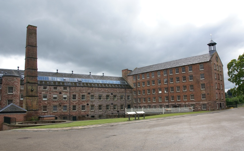 Stanley Mills, Stanley, Perth and Kinross, Scotland - Mid Mill and Bell Mill